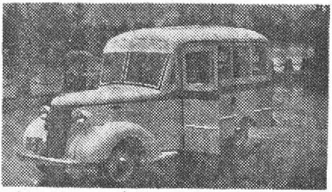 It may be the first motor-powered ambulance in Korea.